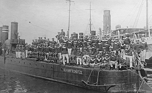 Austro-Hungarian destroyer (SMS Scharfschütze) - copyright expired